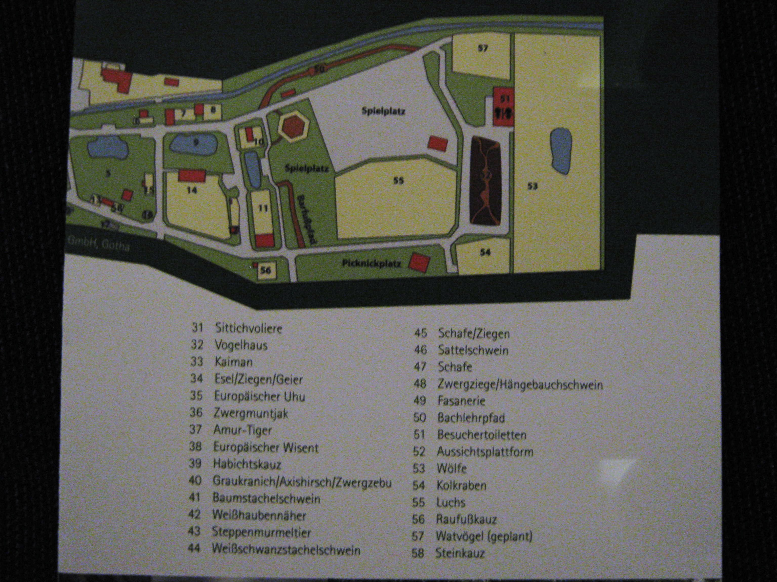 Plan of the zoo in Gotha